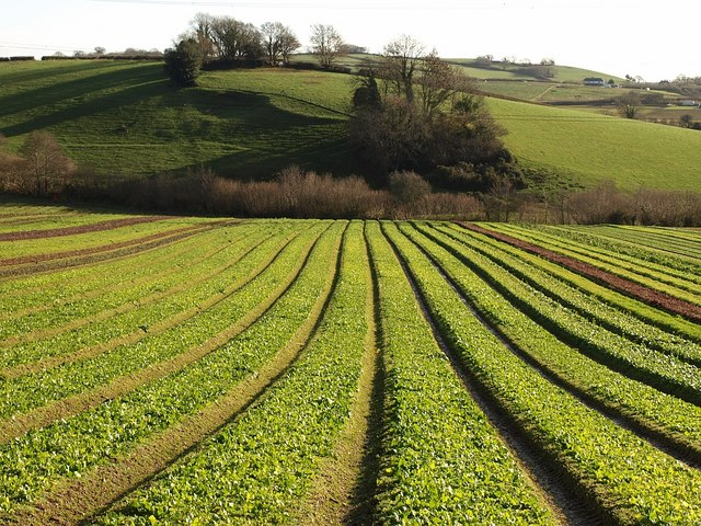 Crops, Riverford. Organic crops on the hillside below Staverton Footpath 2. The trees at the top of the hill left of centre can be seen from the other direction in 1074289.